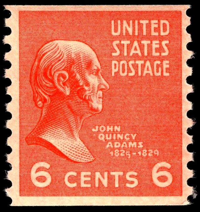 1938 USA stamp of John Quincy Adams - 594 pixels wide. Scanned by Adrian Pingstone on 20th February 2003 at 600 dpi on an Epson flat-bed scanner.